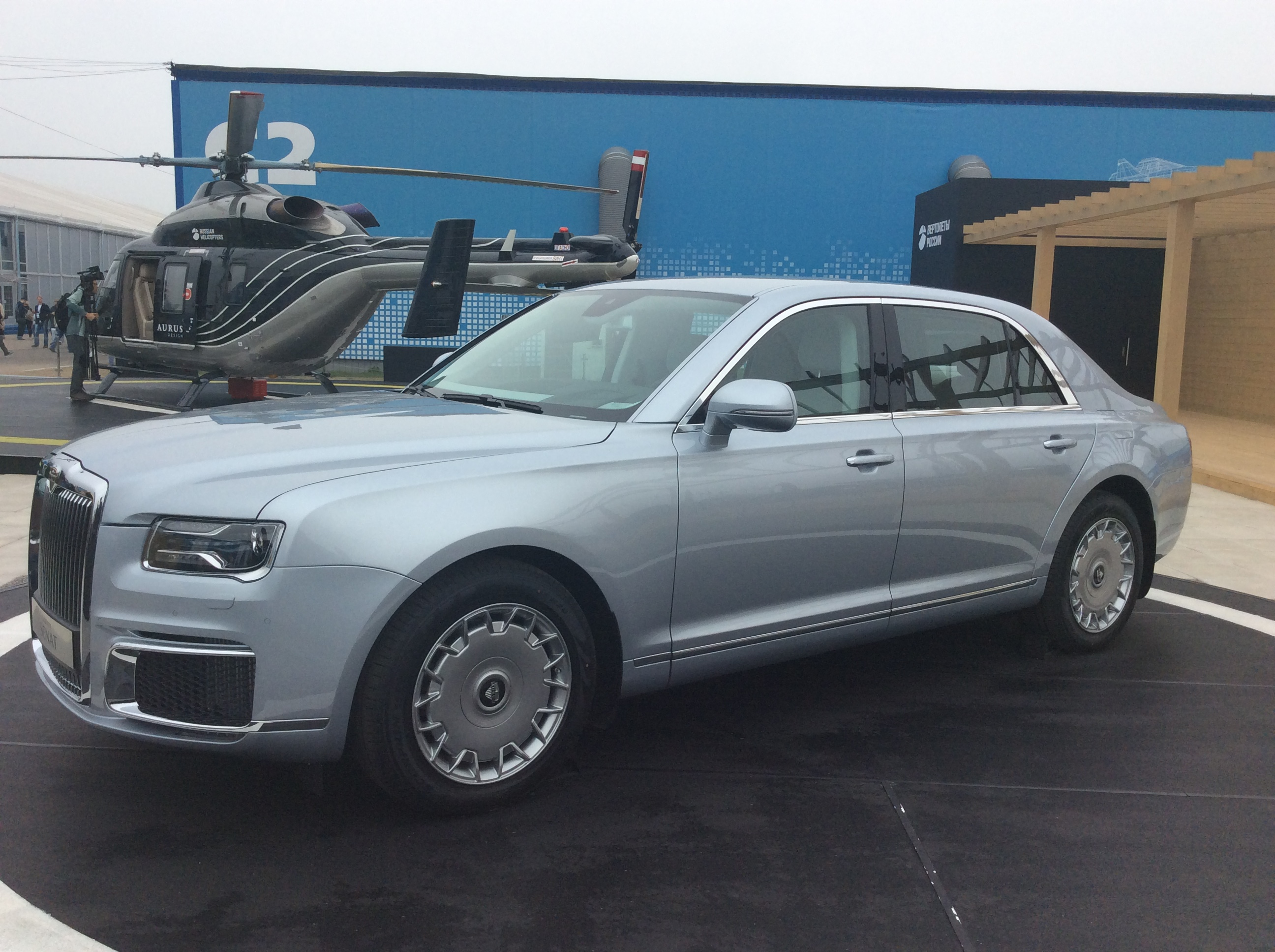 Aurus Senat at the MAKS Air Show.